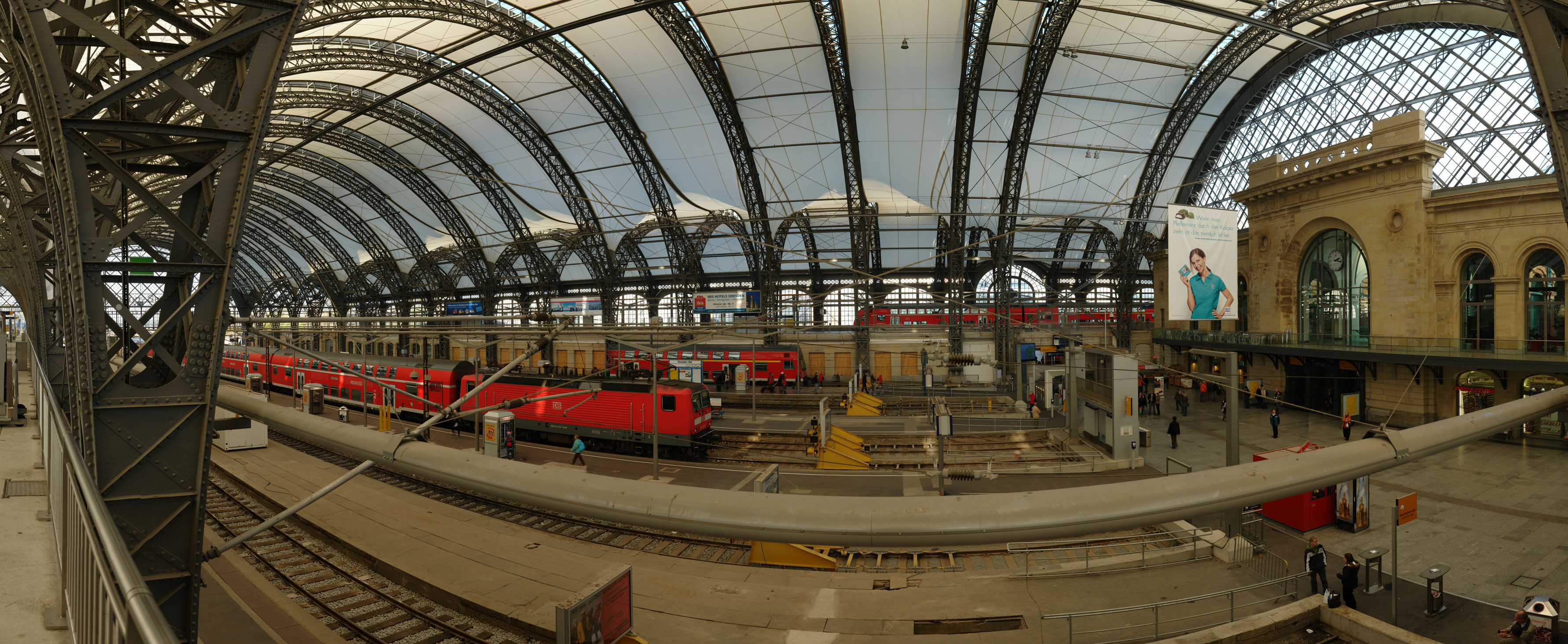 Dresden Main Station